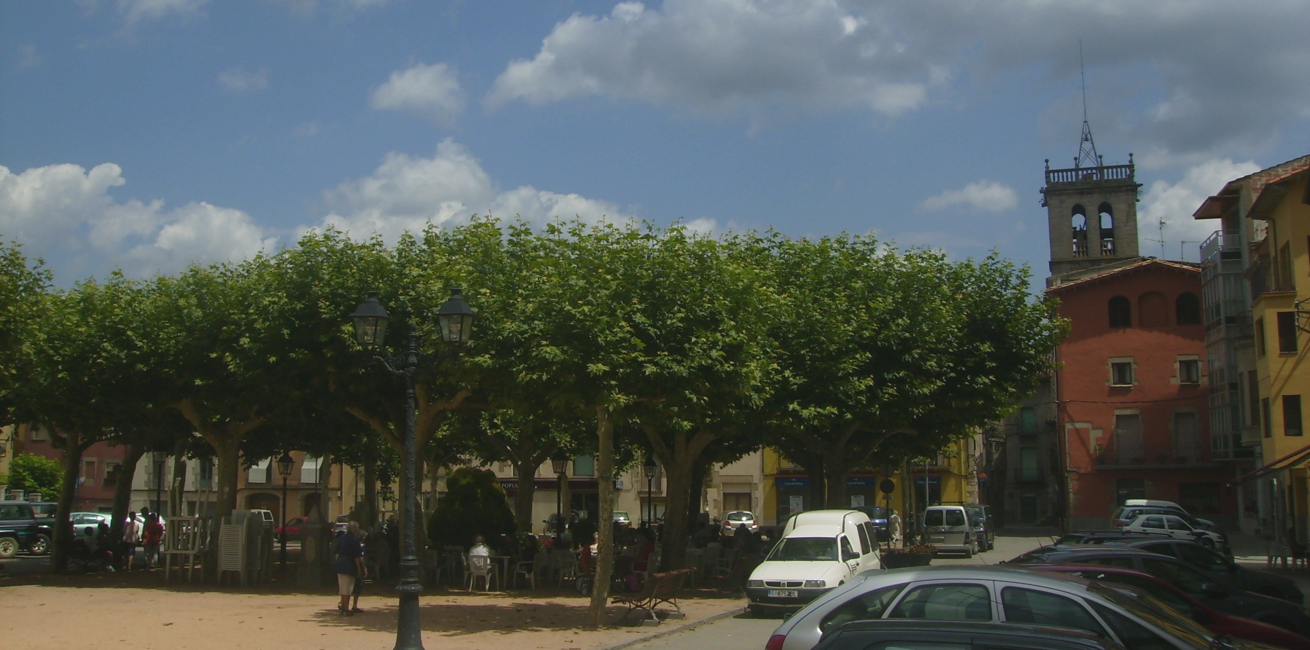 Firal square in Sant Feliu de Pallerols, la Garrotxa, Catalonia.